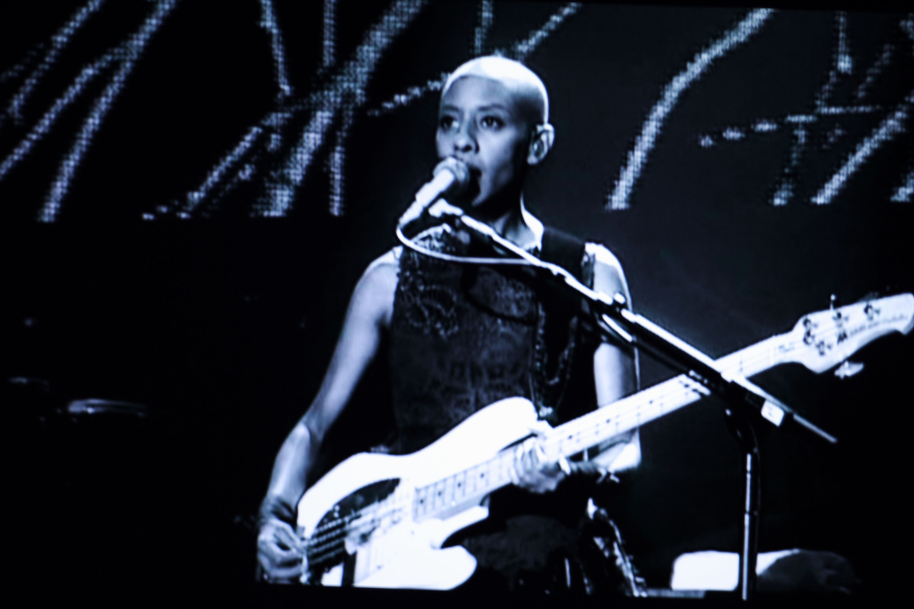 Singing with David Bowie: Under Pressure